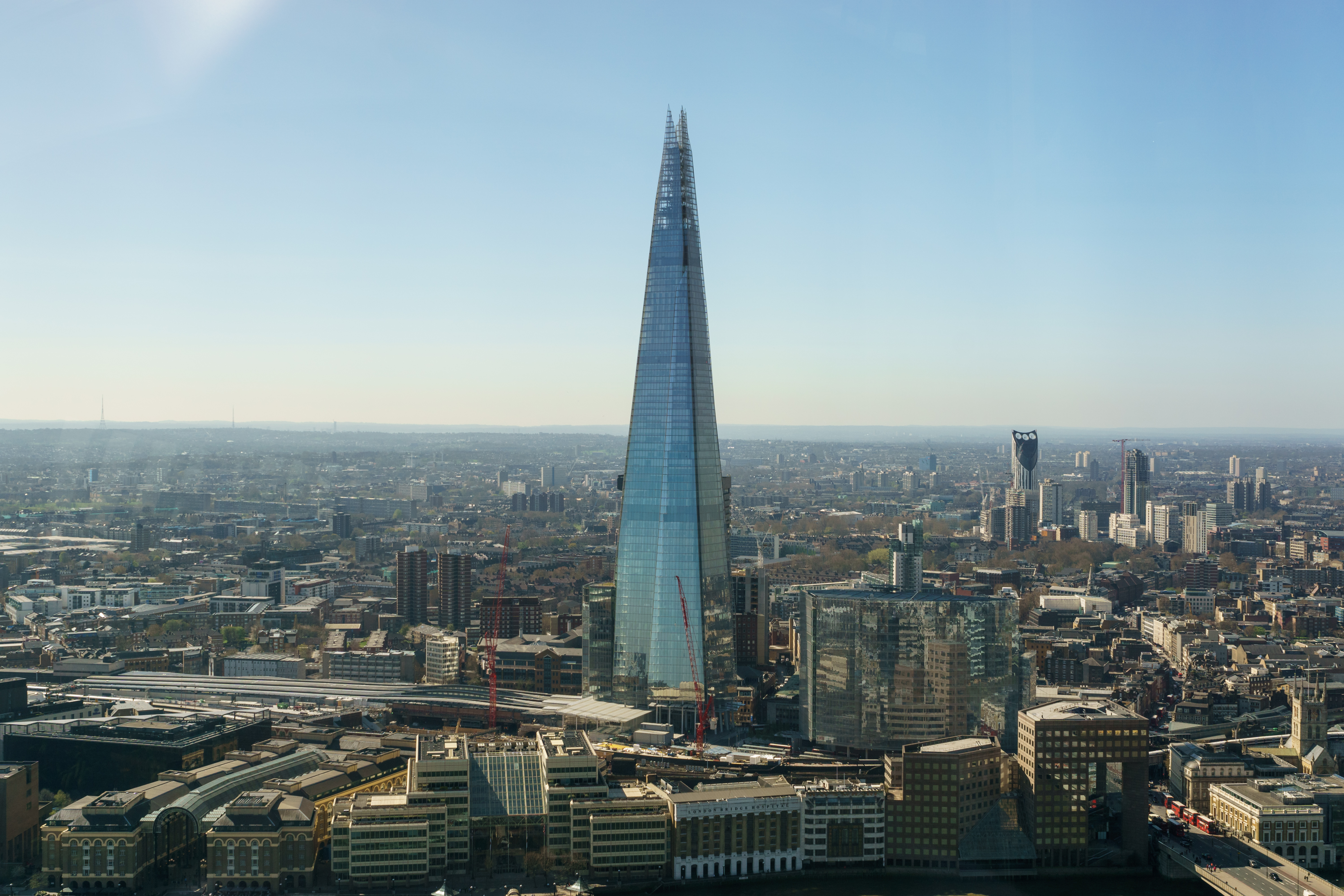 The view south from the Sky Garden atop the "Walkie-Talkie".